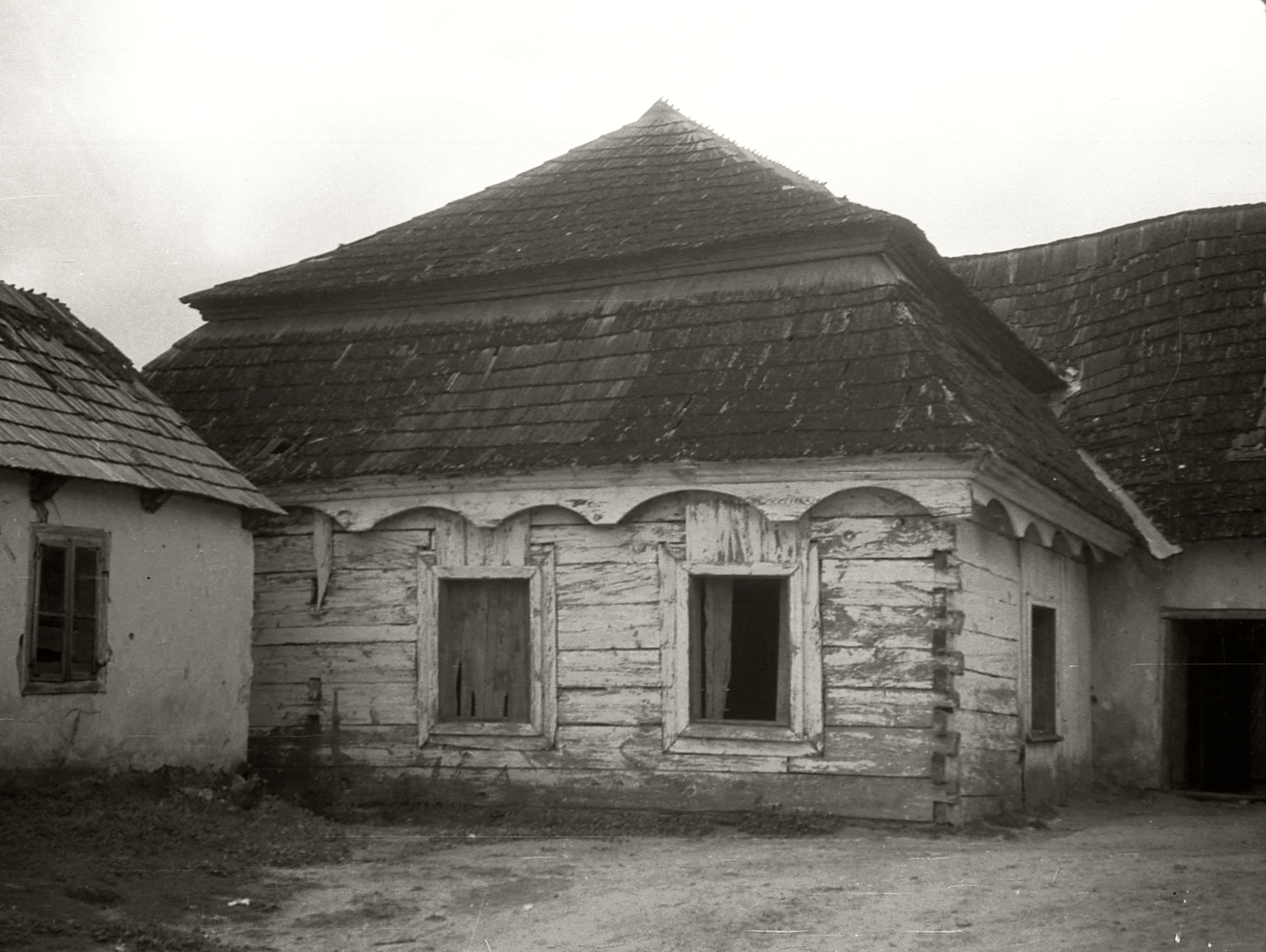 Synagogue in Sobków